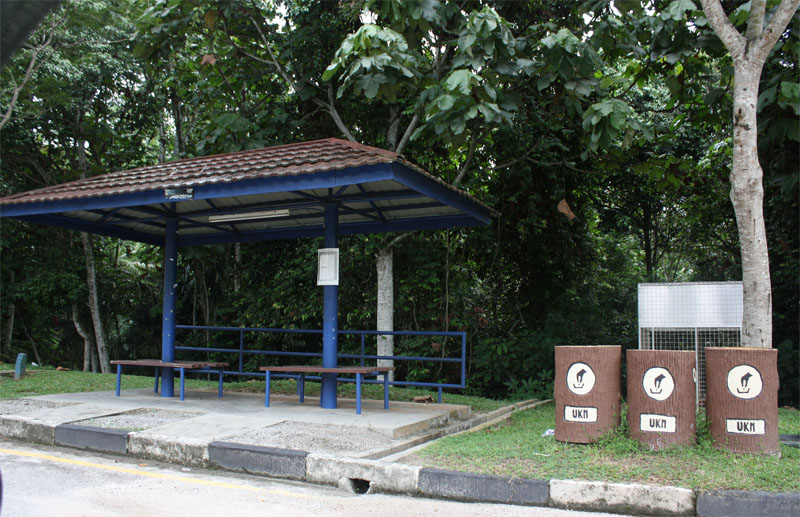 UKM University in Malaysia